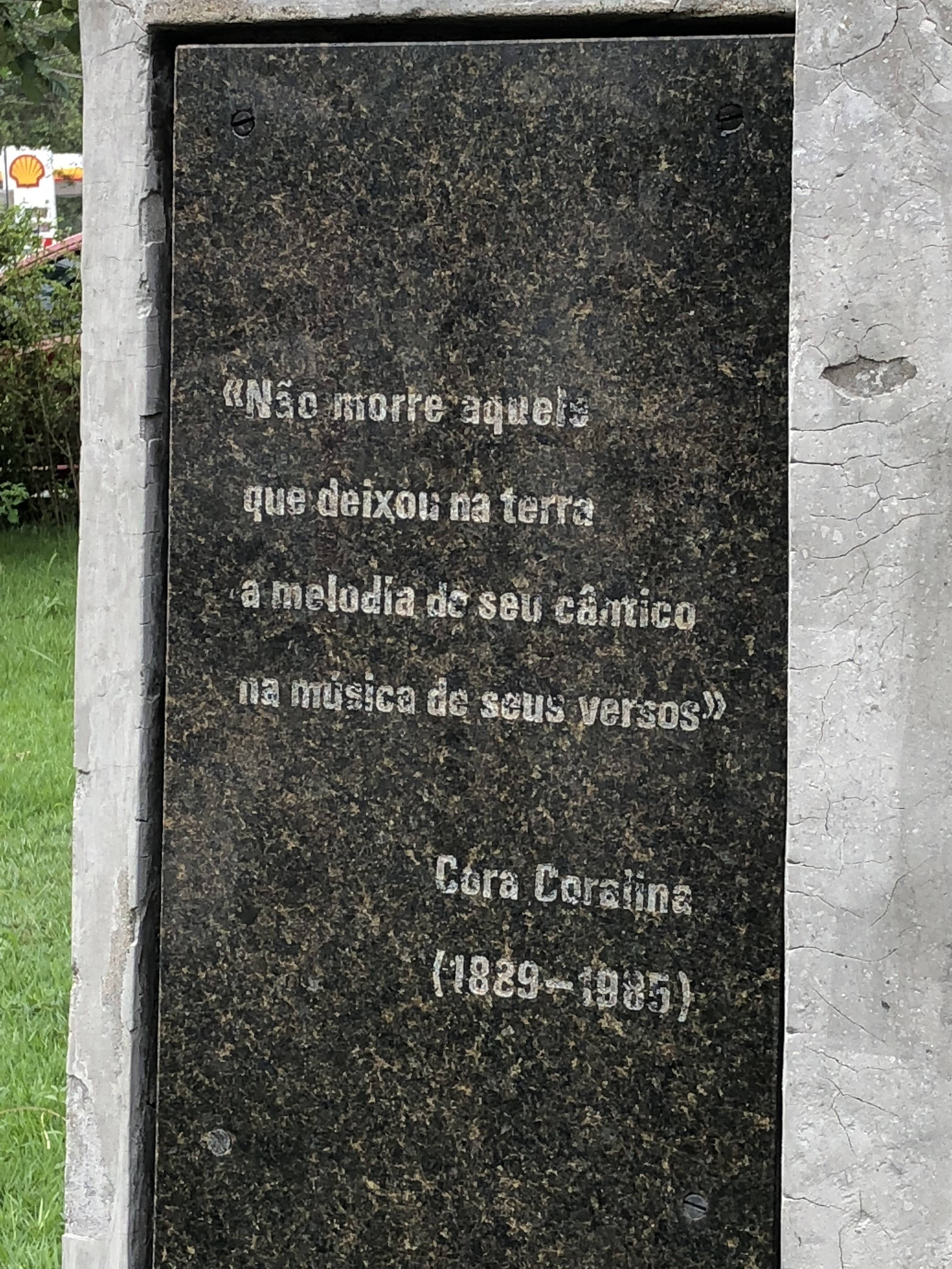 Front view of the description of the monument "Cora Coralina" in São Paulo, Brazil.